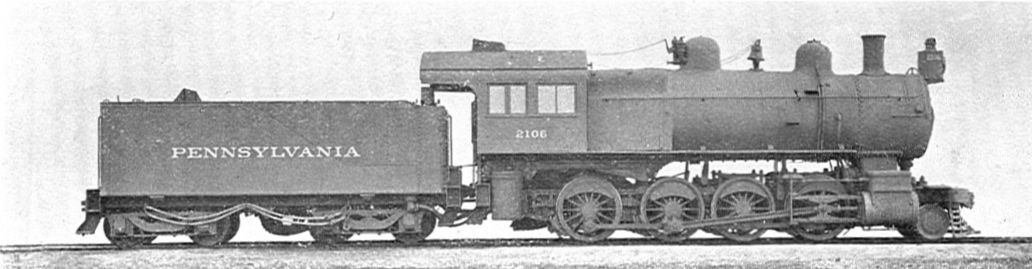 Fig. 2 The "Consolidation" in Europe and America Pennsylvania Railroad